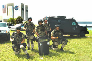 The Kennedy Space Center SWAT team